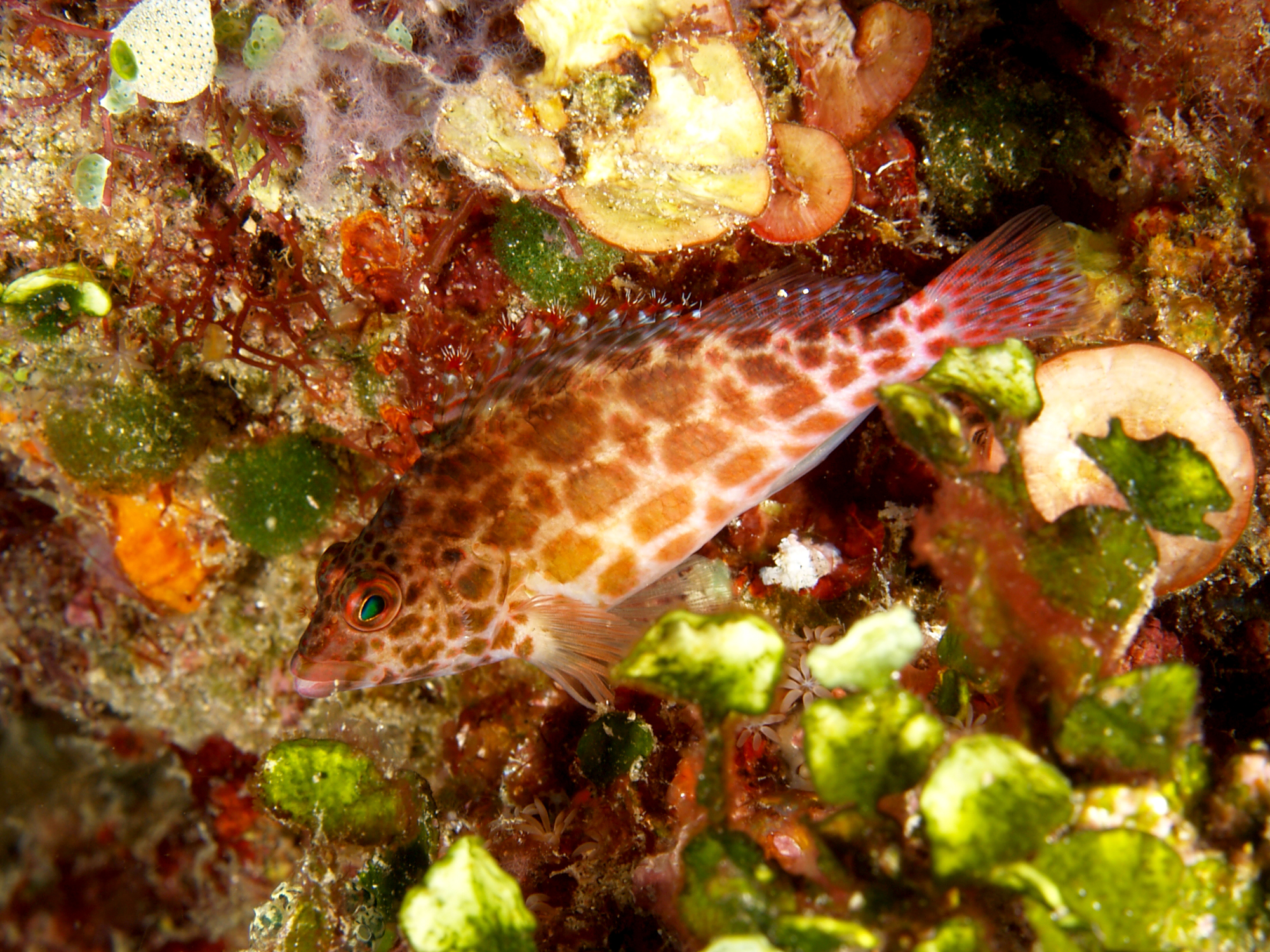 Threadfin hawkfish